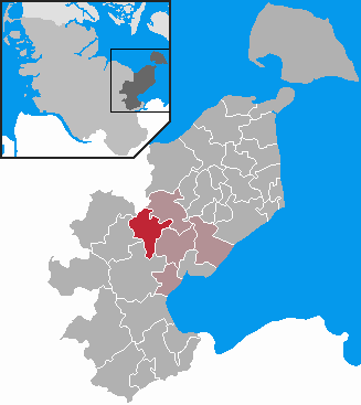 This map shows the area of the Gemeinde (municipality) Kasseedorf in the Kreis (district) Ostholstein, Schleswig-Holstein, Germany.